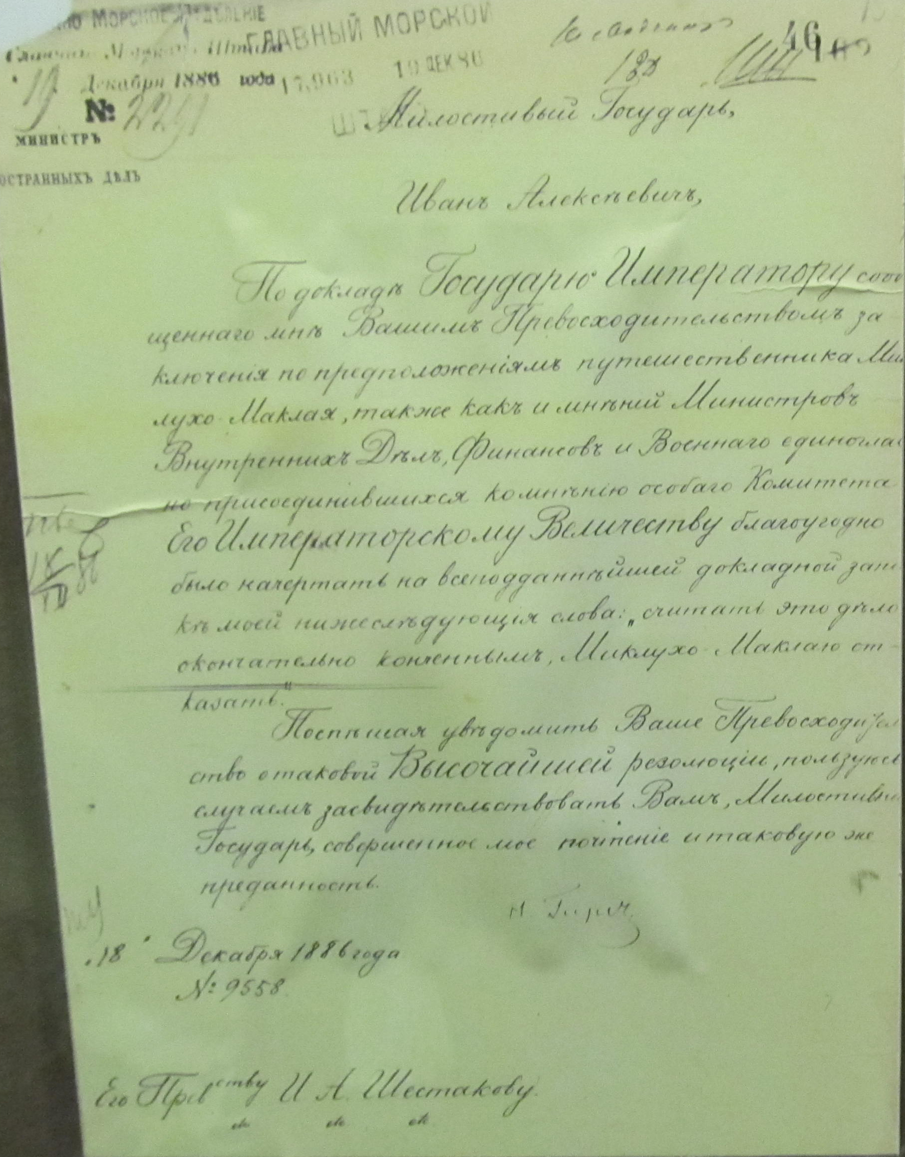 Answer for Miklouho-Maclay Letter about Pacific Ocean, Dec 1886